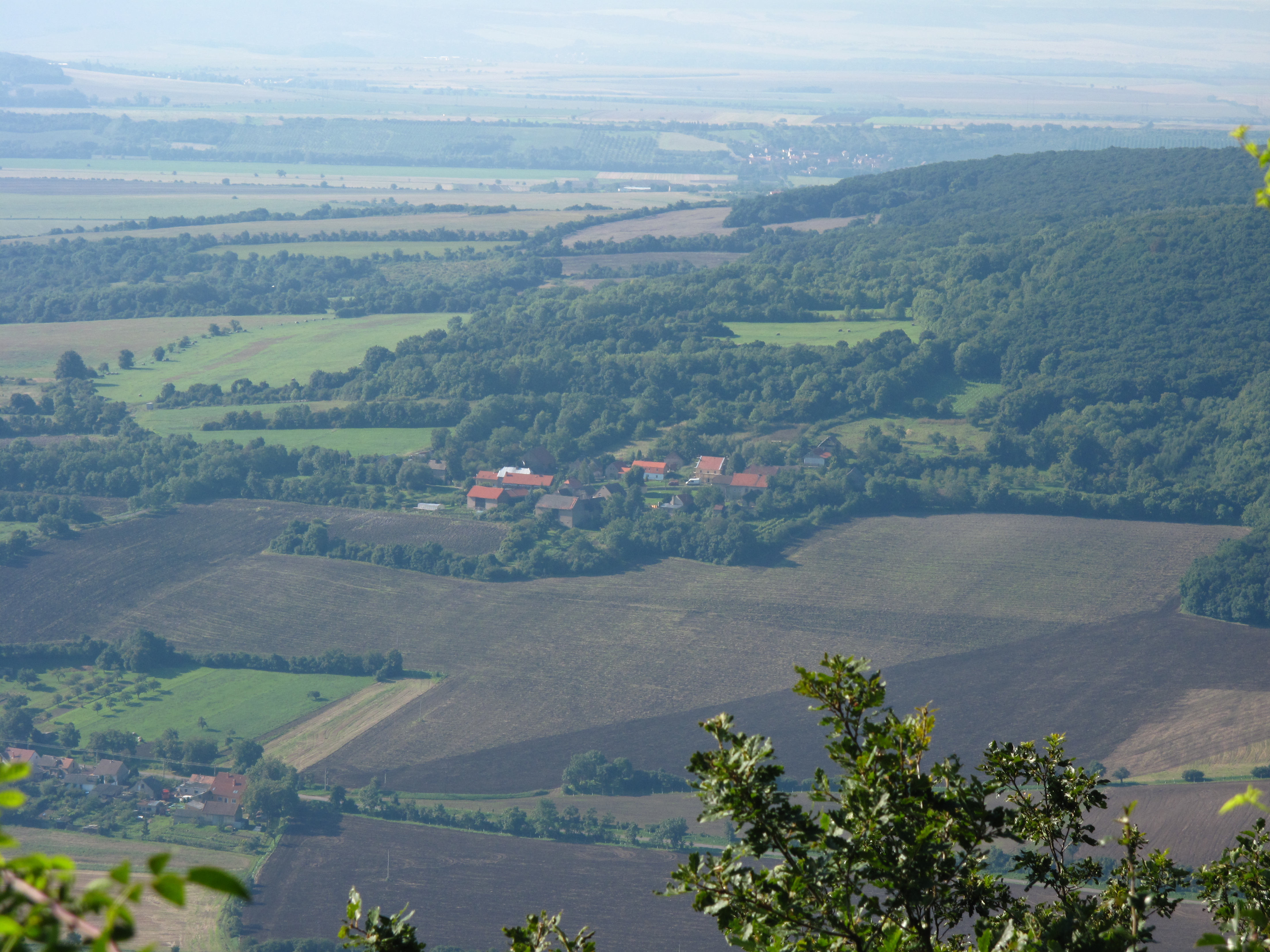 View from Lovoš Hill, Litoměřice District, Czech Republic.